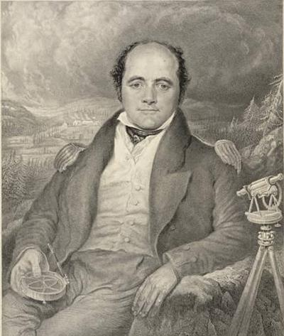 Capt. Francklin from Narrative of a journey to the shores of the Polar Sea, in the years 1819, 20, 21 and 22 by John Franklin. London: John Murray, 1823